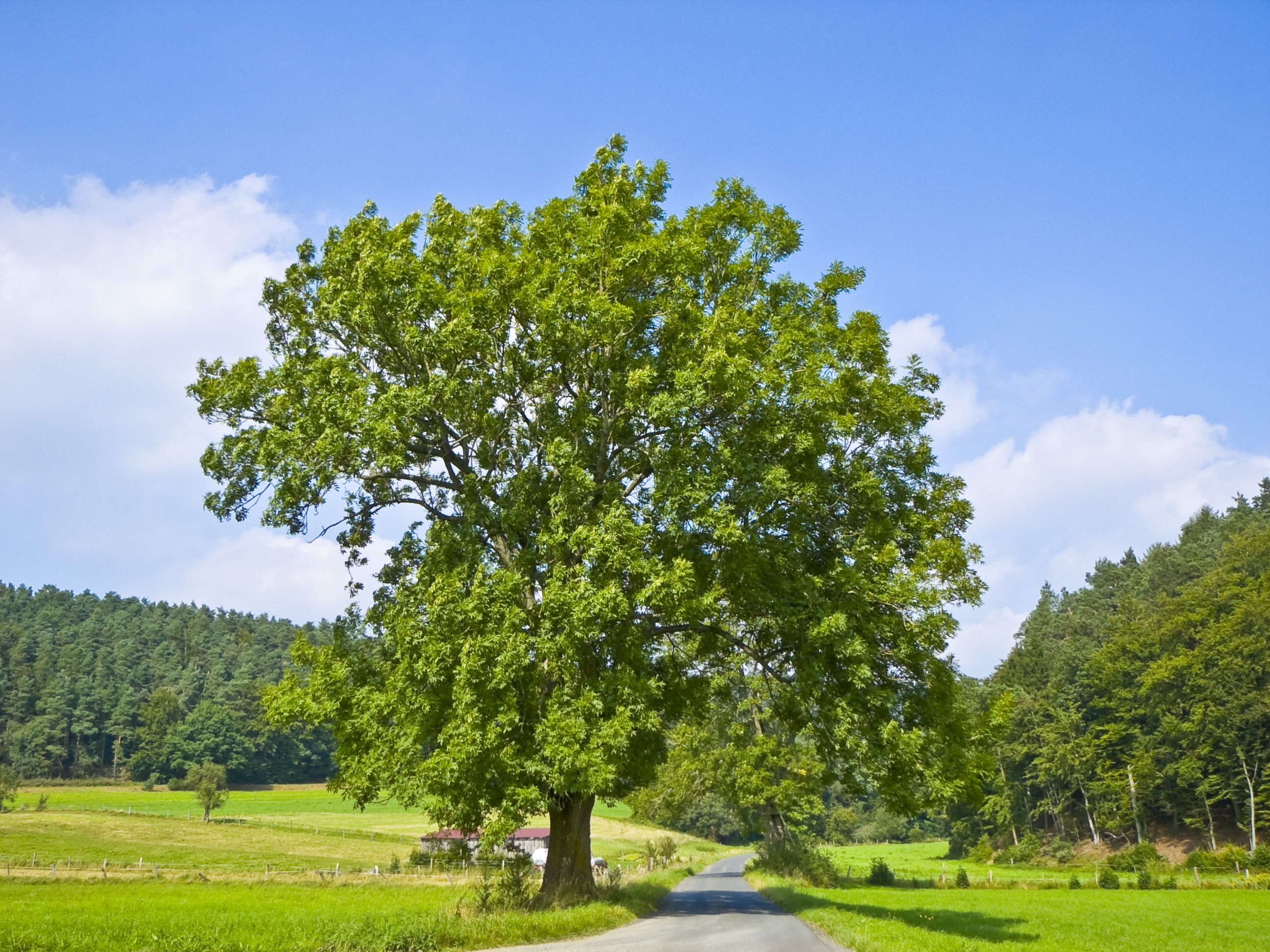 European Ash (Fraxinus excelsior) in the Burgwald, Hesse, Germany